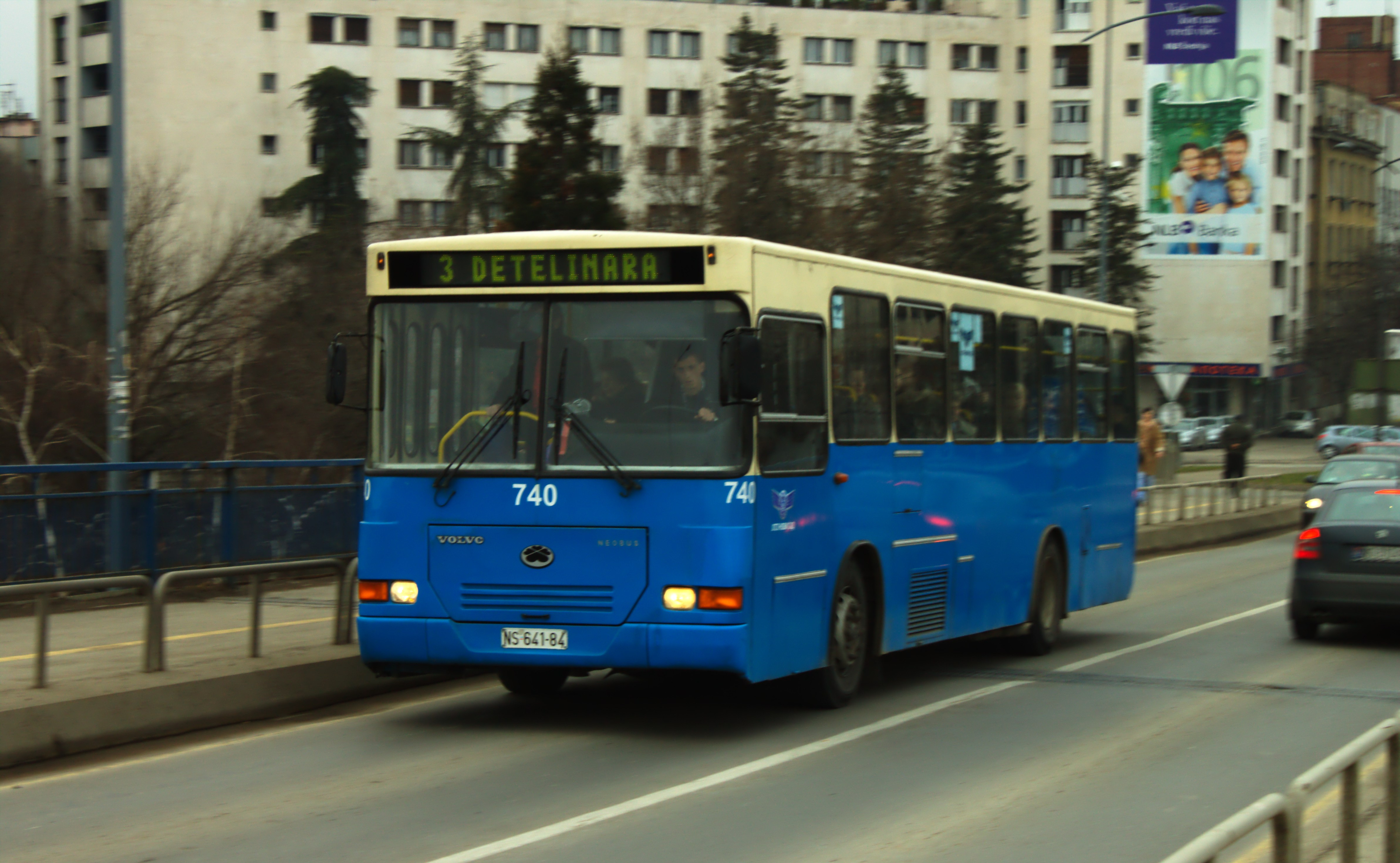 A public transport bus on Varadinski most bridge, Novi Sad, Serbia